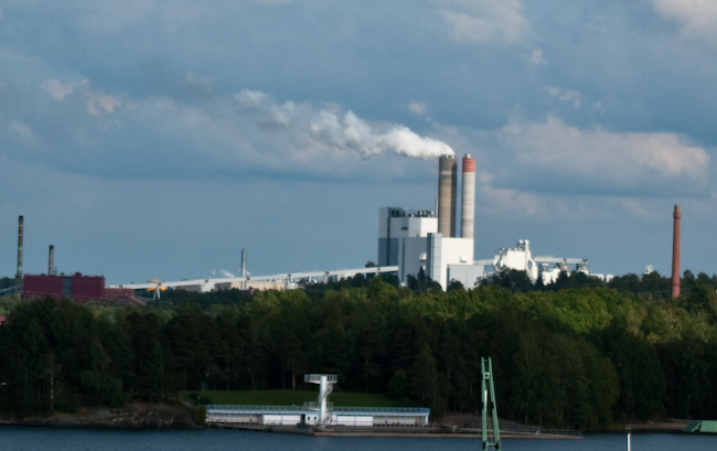 Kaukas paper mill and biomass power plant in Lappeenranta, Finland